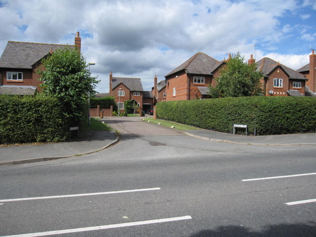 Castle Hill, Pulford The name of this small development is no doubt taken from the Norman motte across the road behind the church.